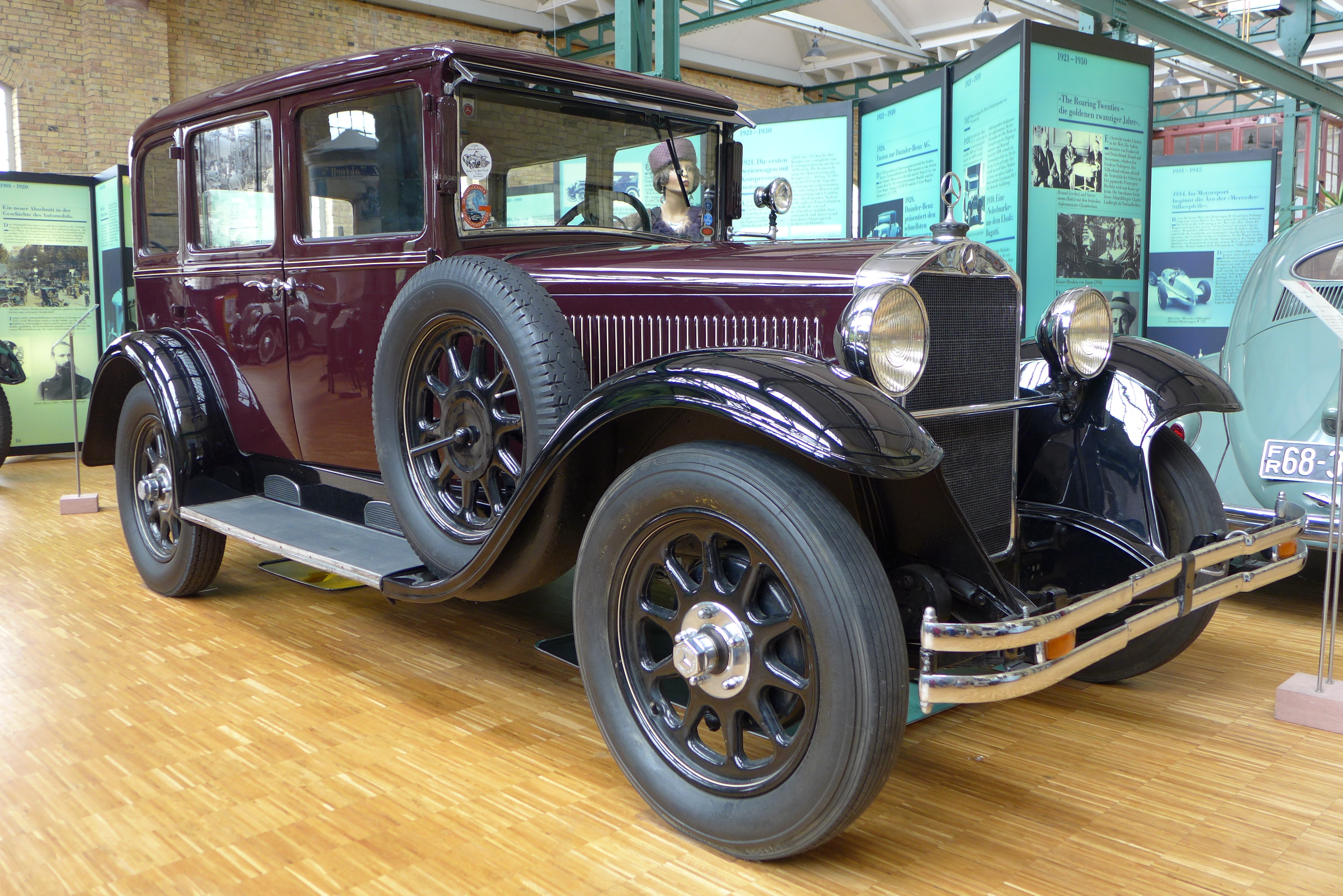 A 1929 Mercedes-Benz Stuttgart 260 (also known as the Mercedes-Benz W11), on display at the Automuseum Dr. Carl Benz, Ladenburg, Baden-Württemberg, Germany.